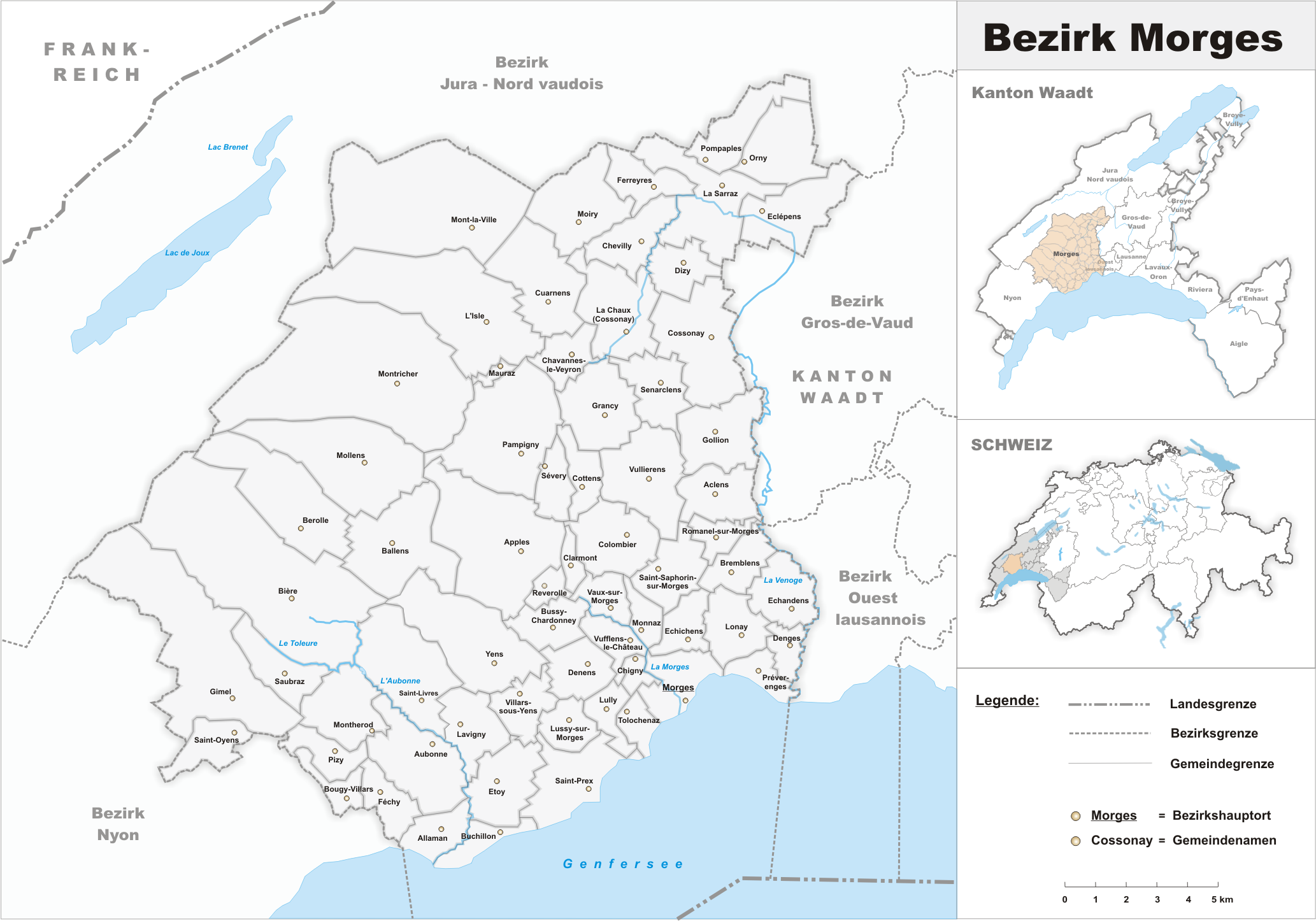 Municipalities in the district of Morges to 2008